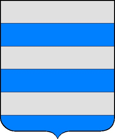 Coat of arms of the de Pommiers Family (France, Aquitaine)